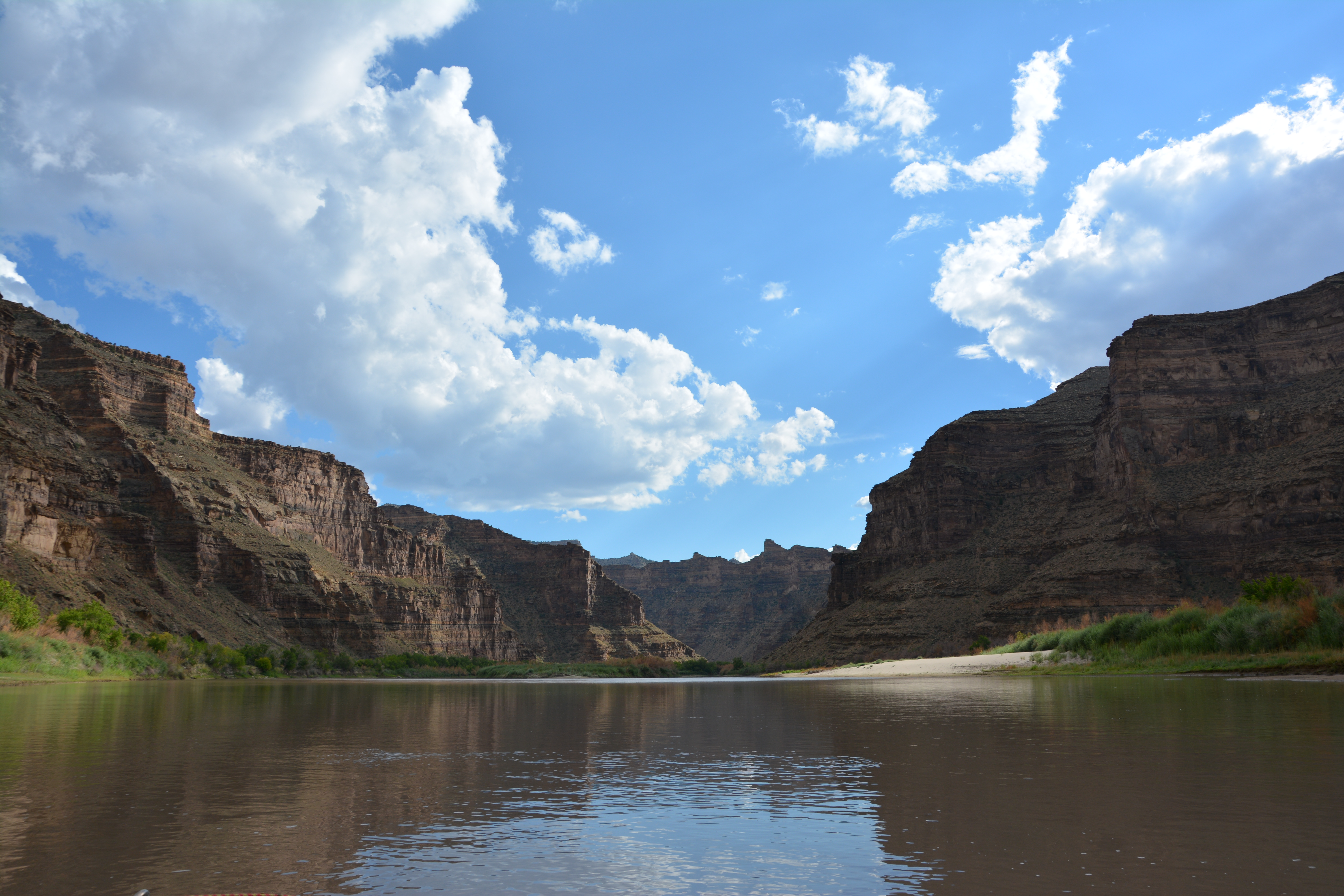 From the My Public Lands Magazine, Summer 2014: "Midnight Mustang" While camping overnight on a solo rafting trip down Utah's aptly-named "Desolation Canyon," BLM River Ranger Mick Krussow has a midnight rendezvous with a wild mustang... story by Mick Krussow, BLM Utah illustration by Matt Christenson, BLM Oregon Read the story